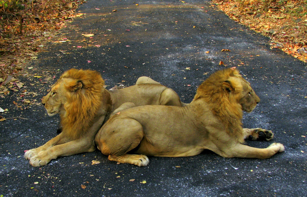 look like twins... Shot in Sanjay Gandhi National Park, Borivali, Mumbai Lion Safari